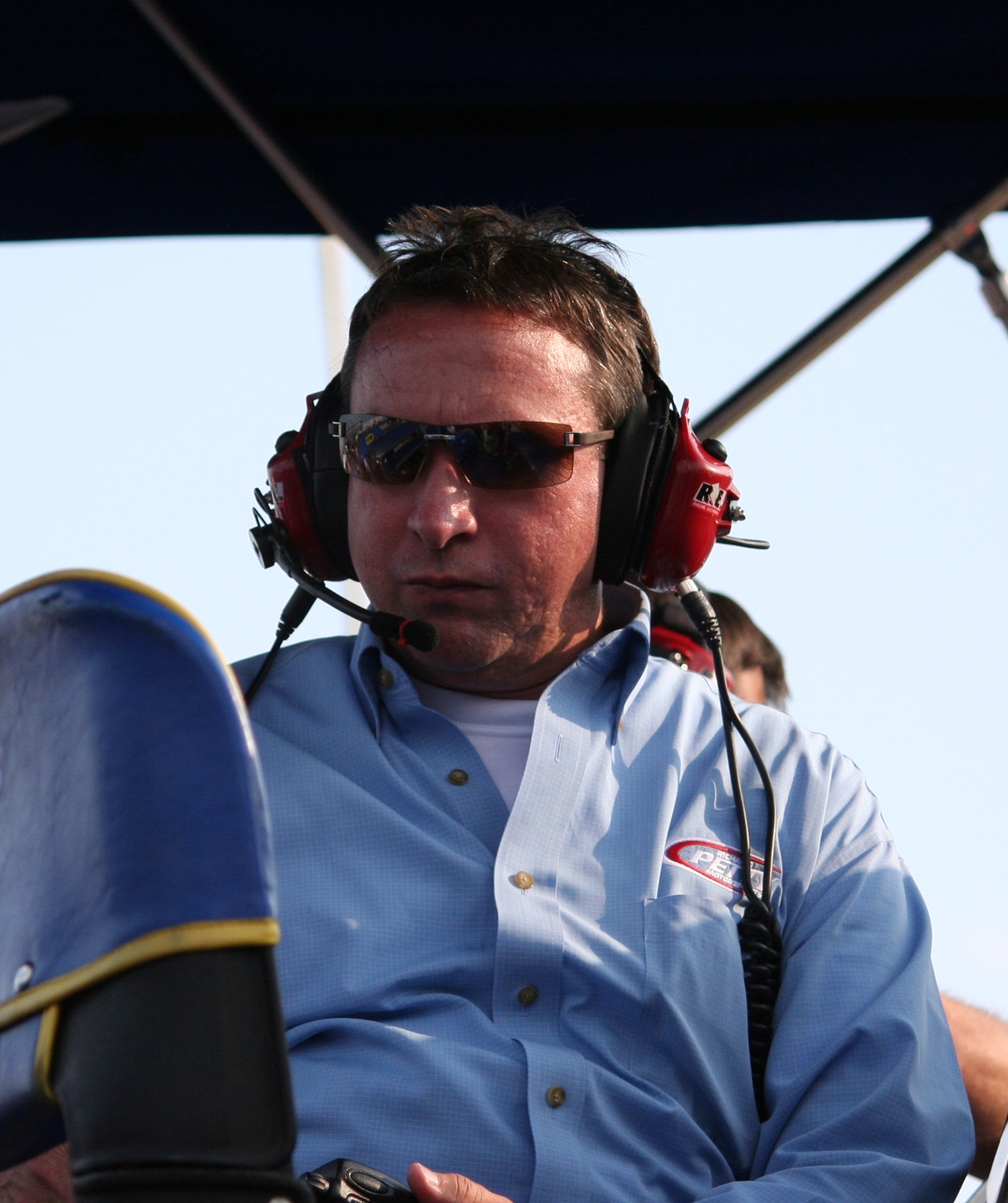 Robbie Loomis during the 2011 Coca-Cola 600 at Charlotte Motor Speedway